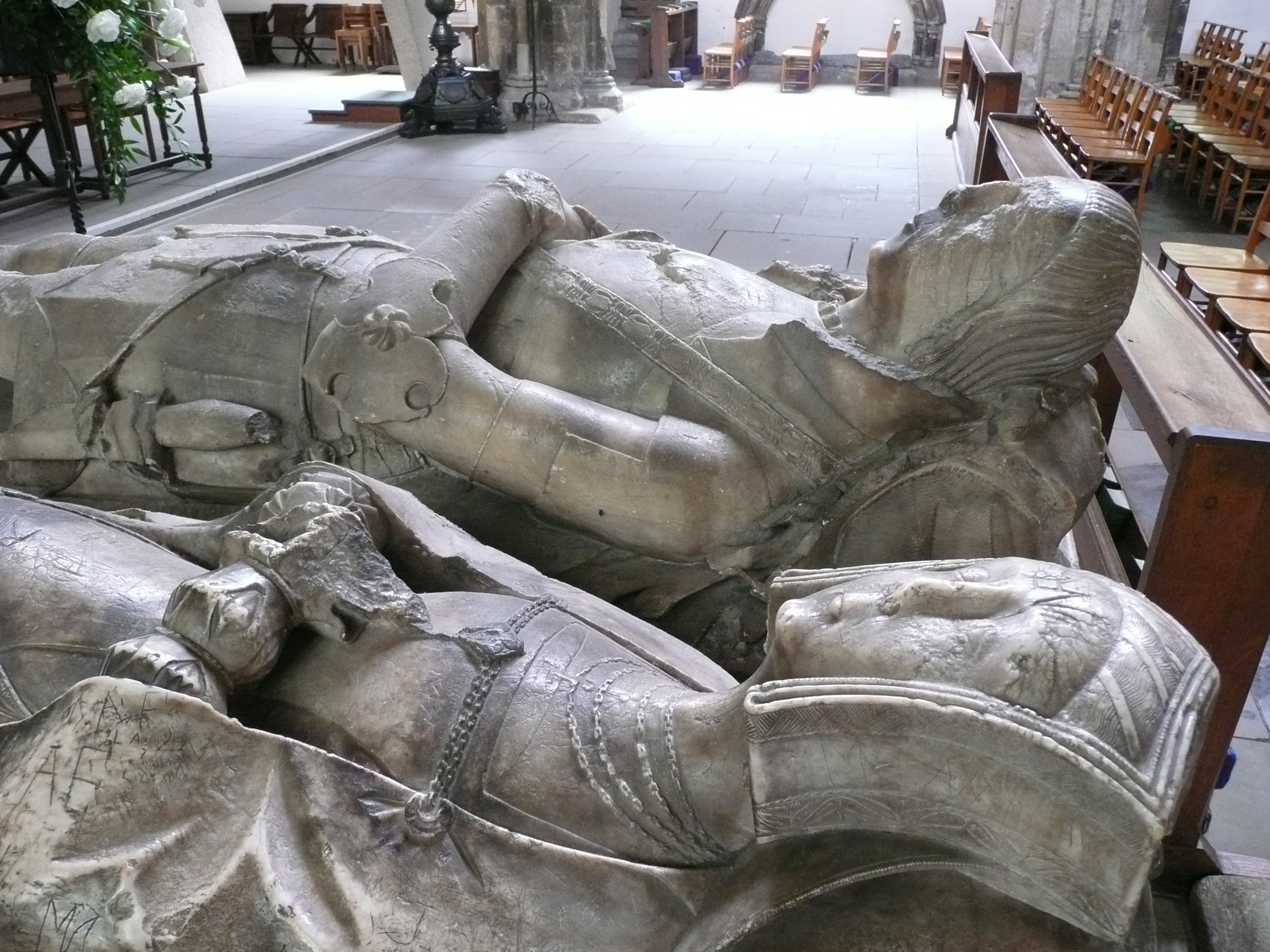 Effigy of Sir William Mathew (died 1528) of Radyr & his wife (Per Welsh Biography Online). Llandaf Cathedral, Wales